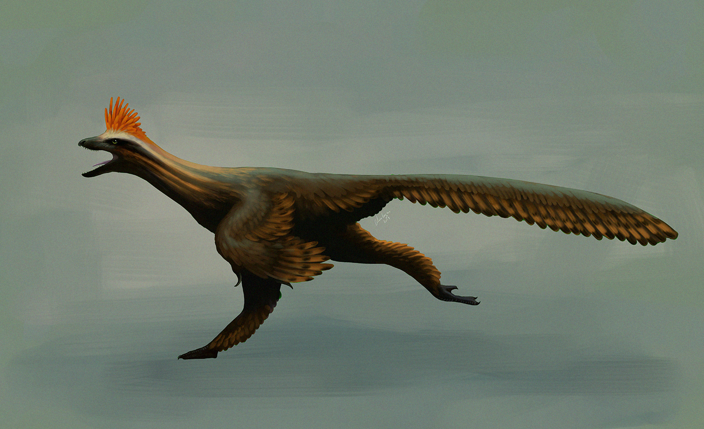 Ostromia reconstruction, previously known as the Haarlem Archaeopteryx specimen